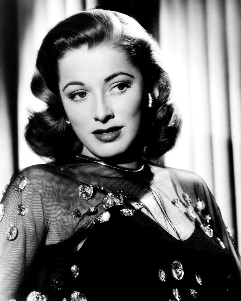 Publicity photo of Eleanor Parker